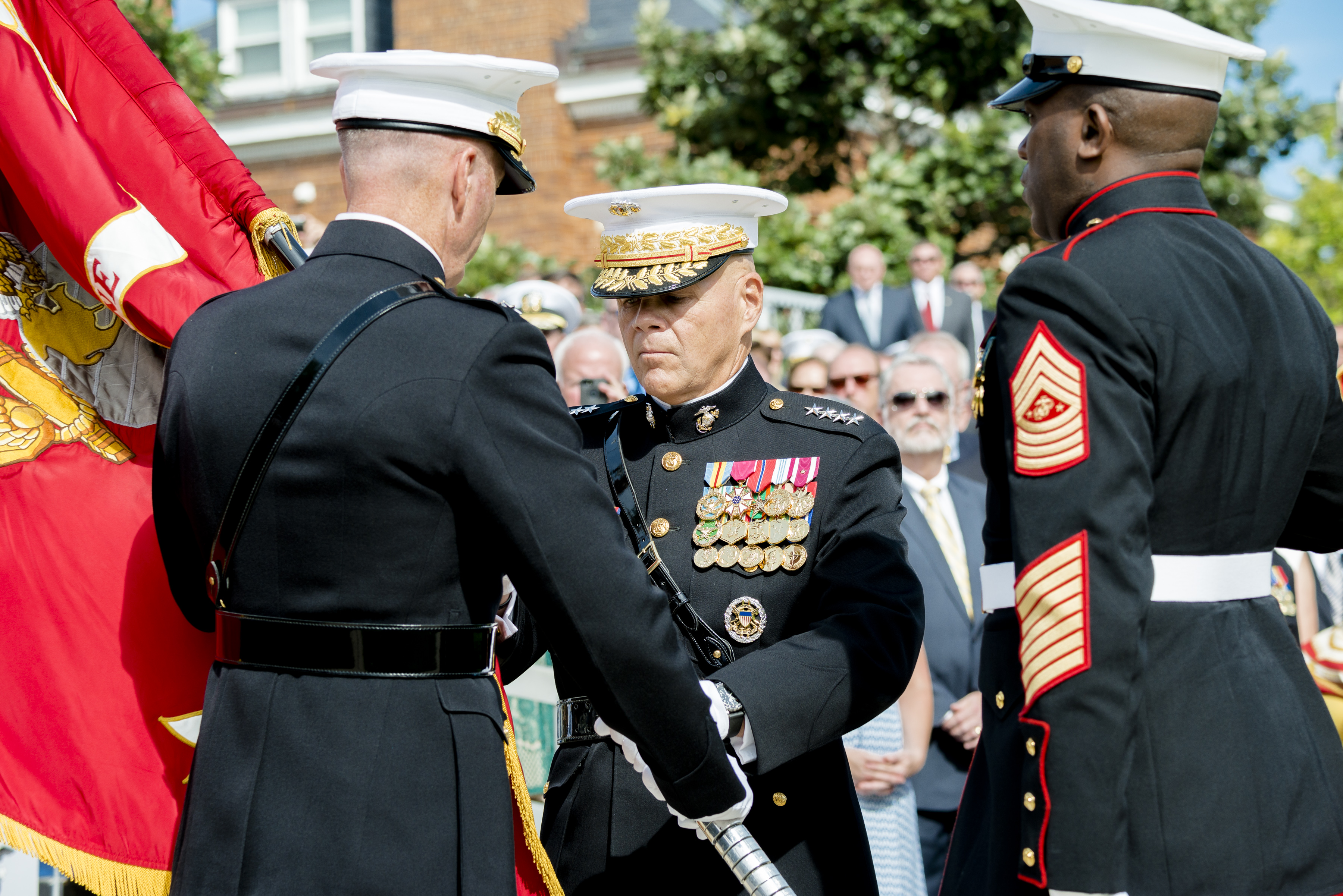 36th Commandant of the Marine Corps Gen. Joseph F. Dunford passes the Marine Corps Colors to 37th Commandant of the Marine CorpsGen. Robert B. Neller during the U.S. Marine Corps passage of command ceremony held at Marine Barracks, in Washington, D.C., Sept. 24, 2015. Gen. Joseph F. Dunford relinquished command to Gen. Robert B. Neller. Gen. Dunford will take over as Chairman of the Joint Chiefs of Staff on Sept. 25, 2015. DoD photo by Army Staff Sgt. Sean K. Harp/Released